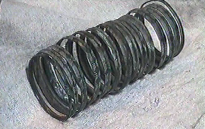 Armlet. Jewellery artifacts from Bronze Age found in Ukraine